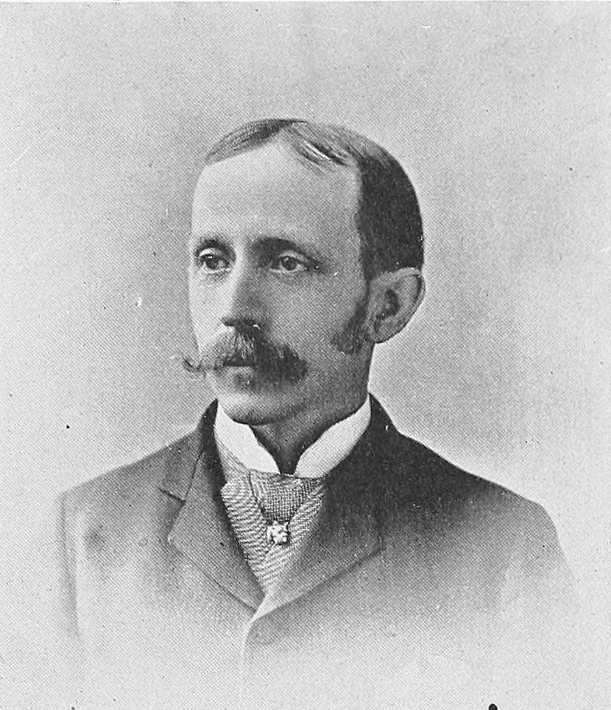 Portrait of William Farrand in 1895